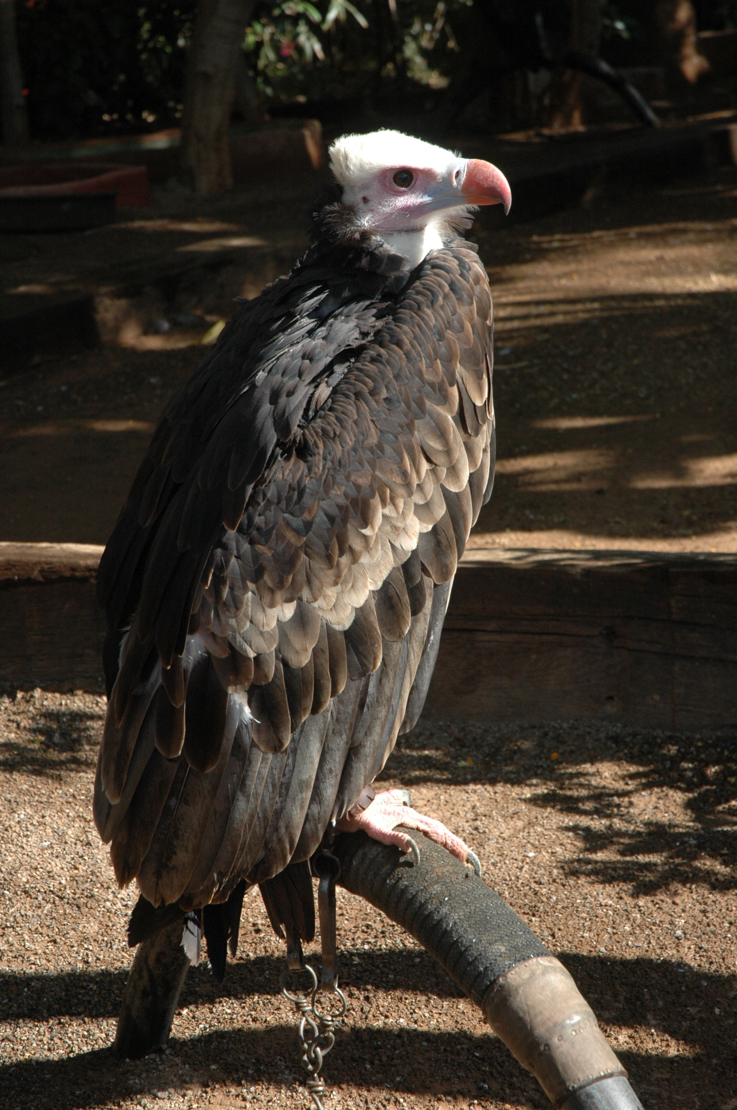 A White-headed Vulture at Las Águilas Jungle Park, Tenerife, Spain.